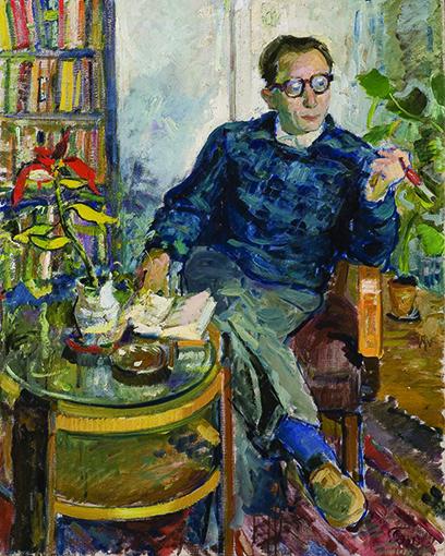 Painting of Moshe Rosenthalis.